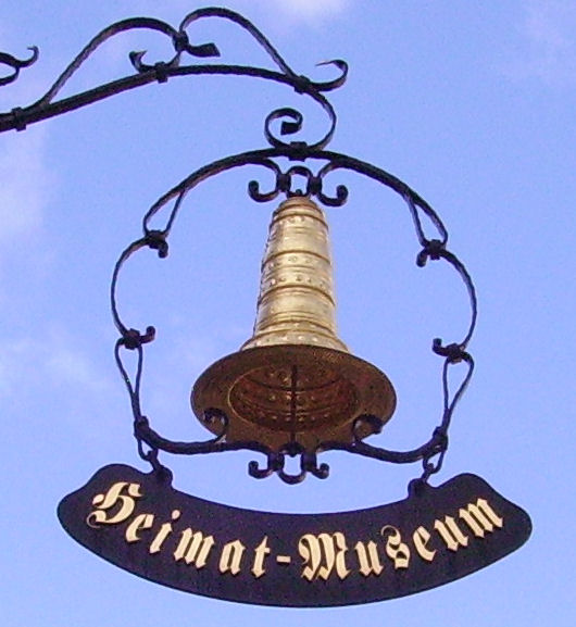 view of Schifferstadt, Germany